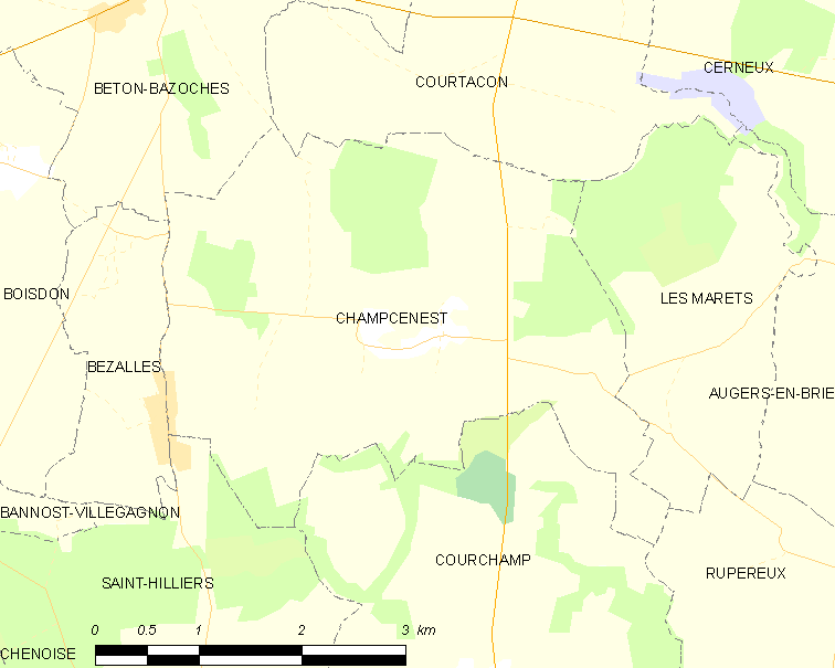 Map of French municipality Champcenest